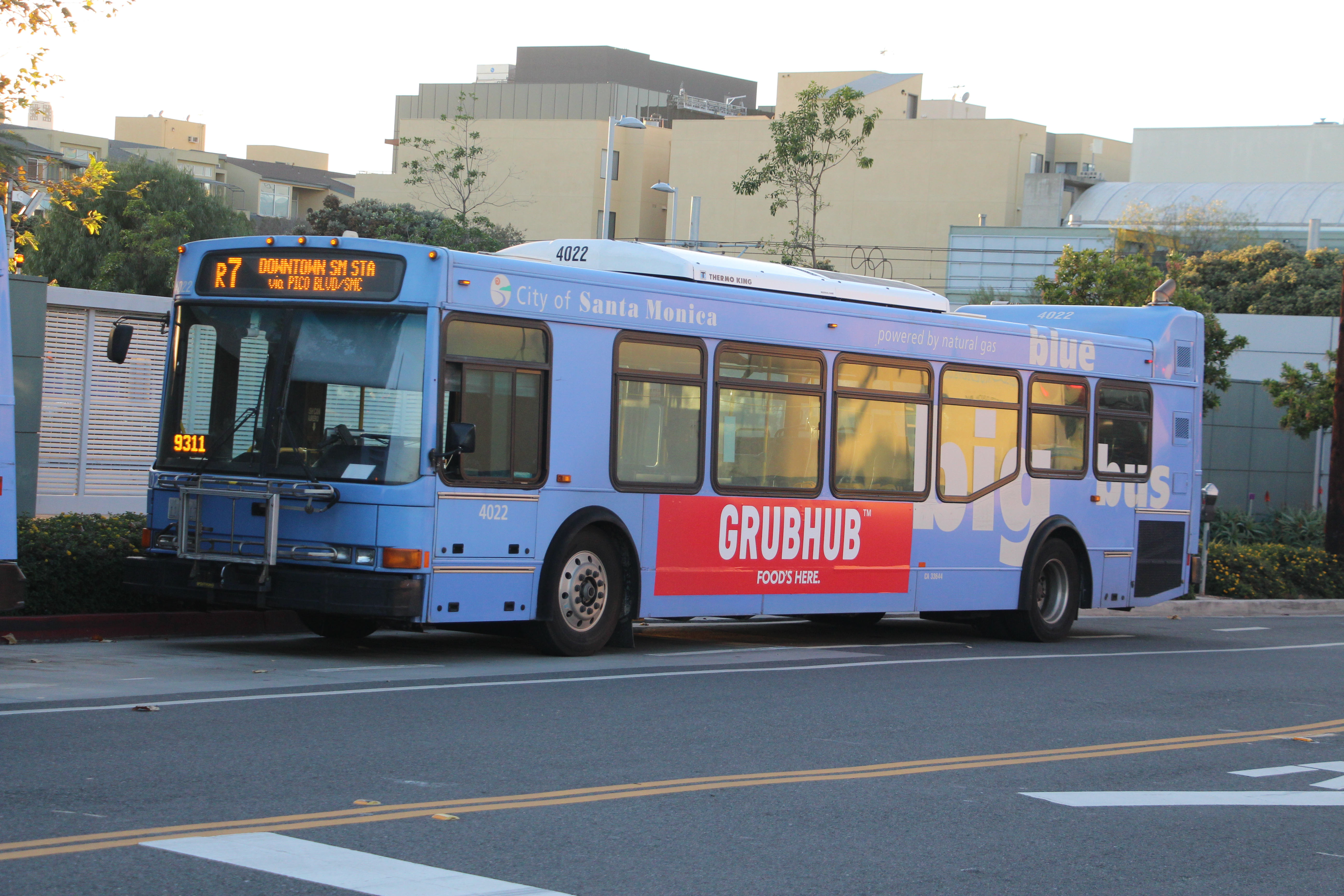 Line Rapid 7 on layover